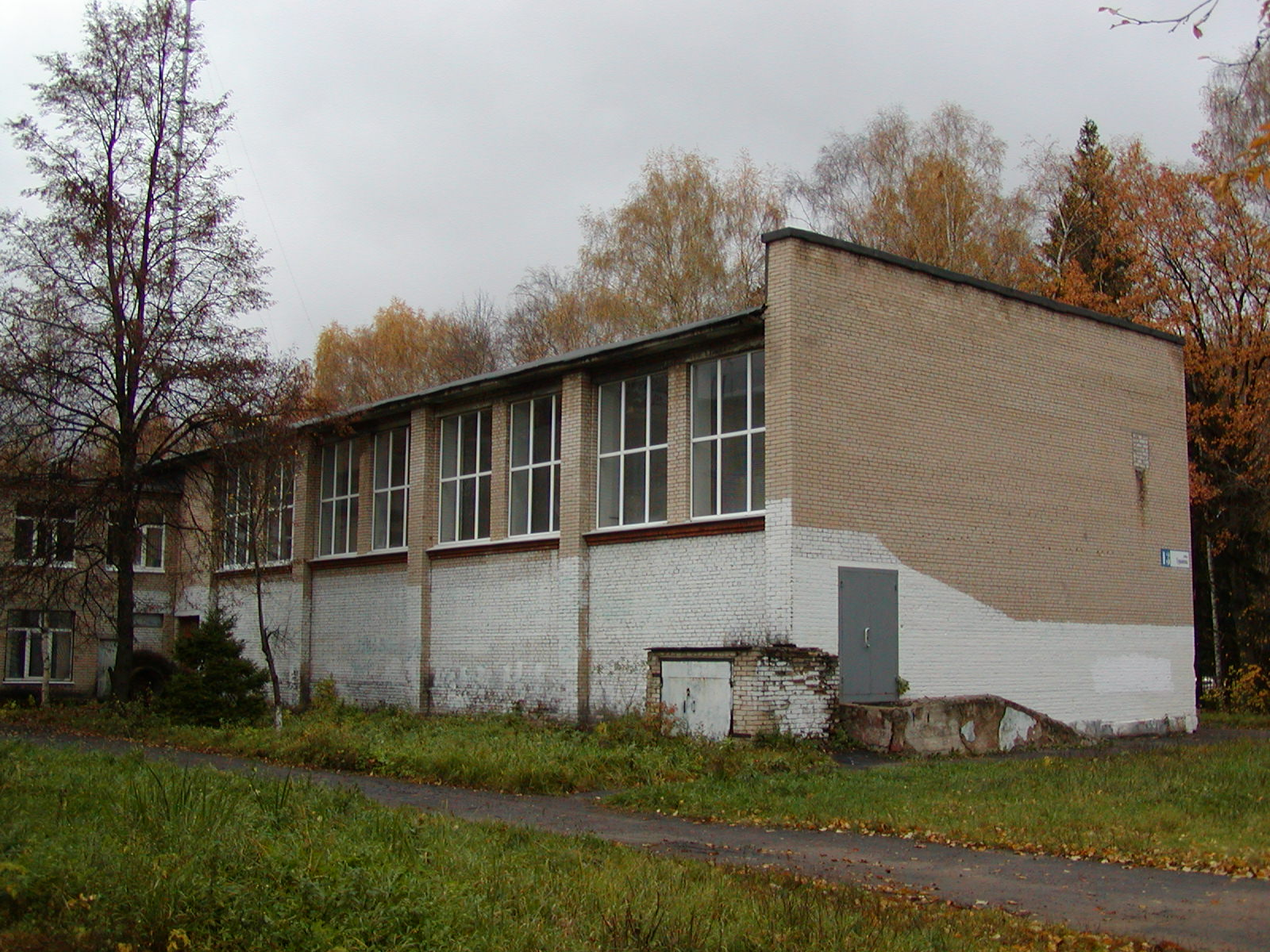 The gym of Obninsk's lycée.